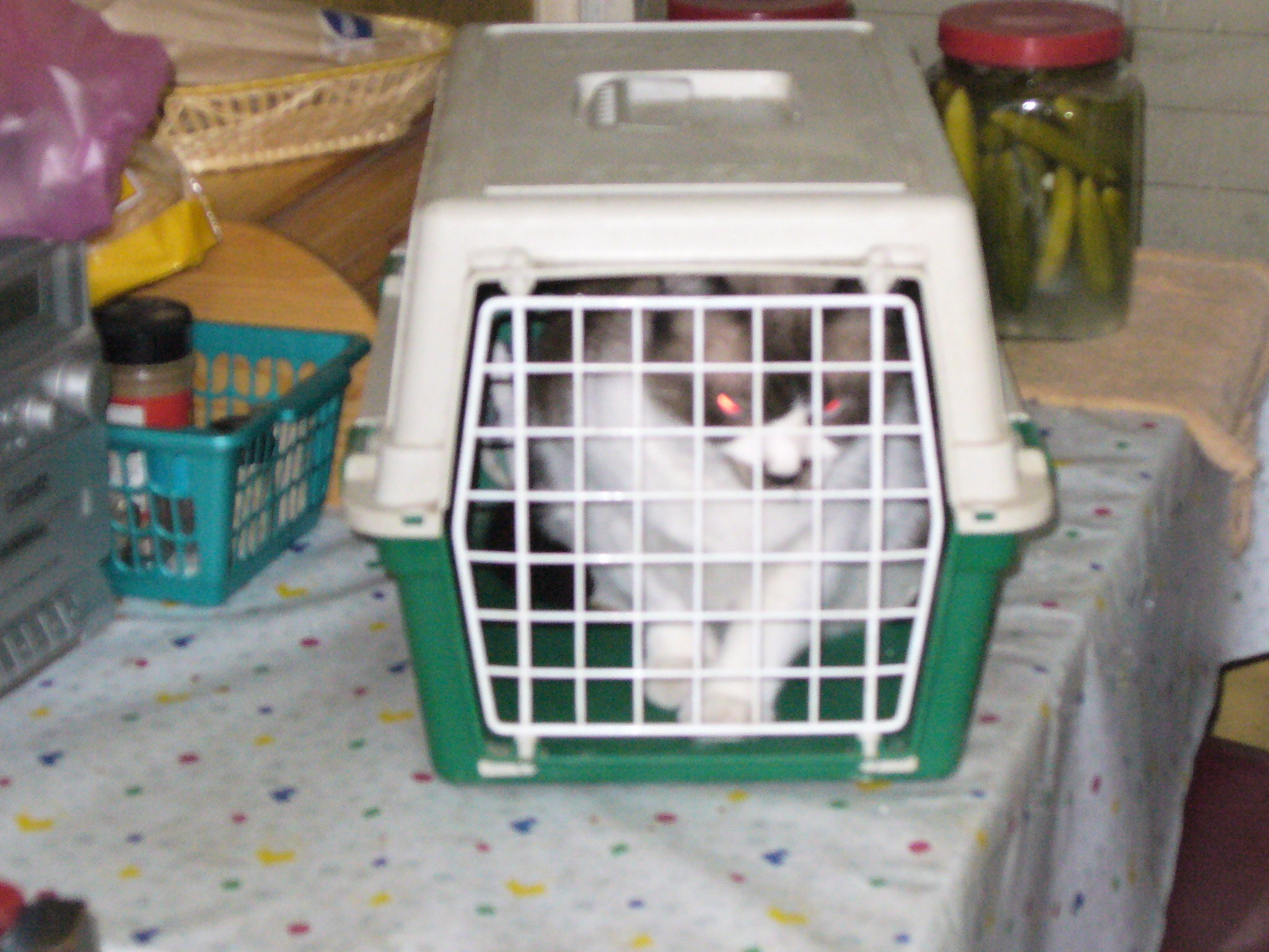 My cat is caged, and his eyes explains why... (Actually he was on his way to the vet)